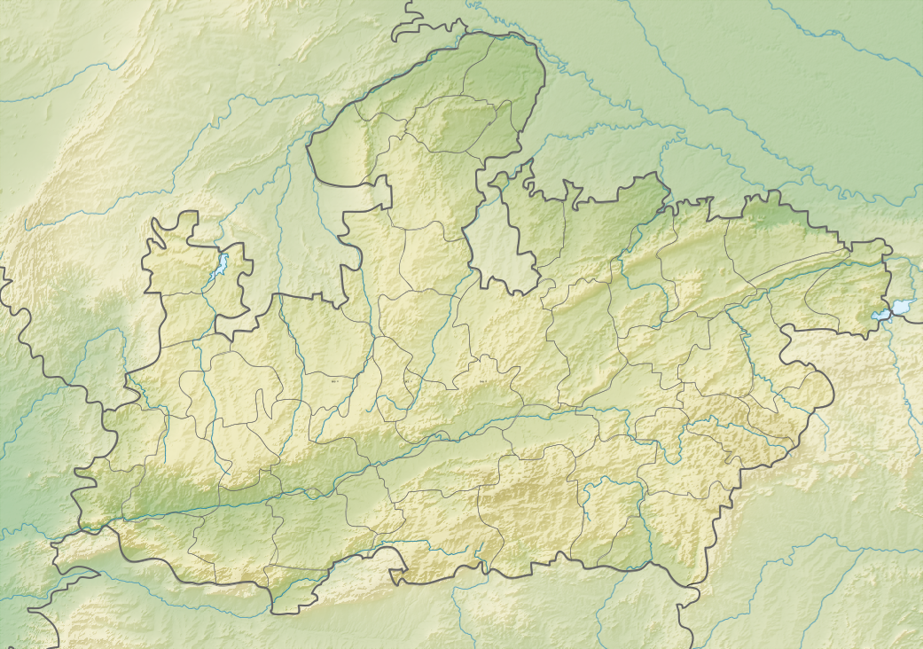 Relief map of Madhya Pradesh.